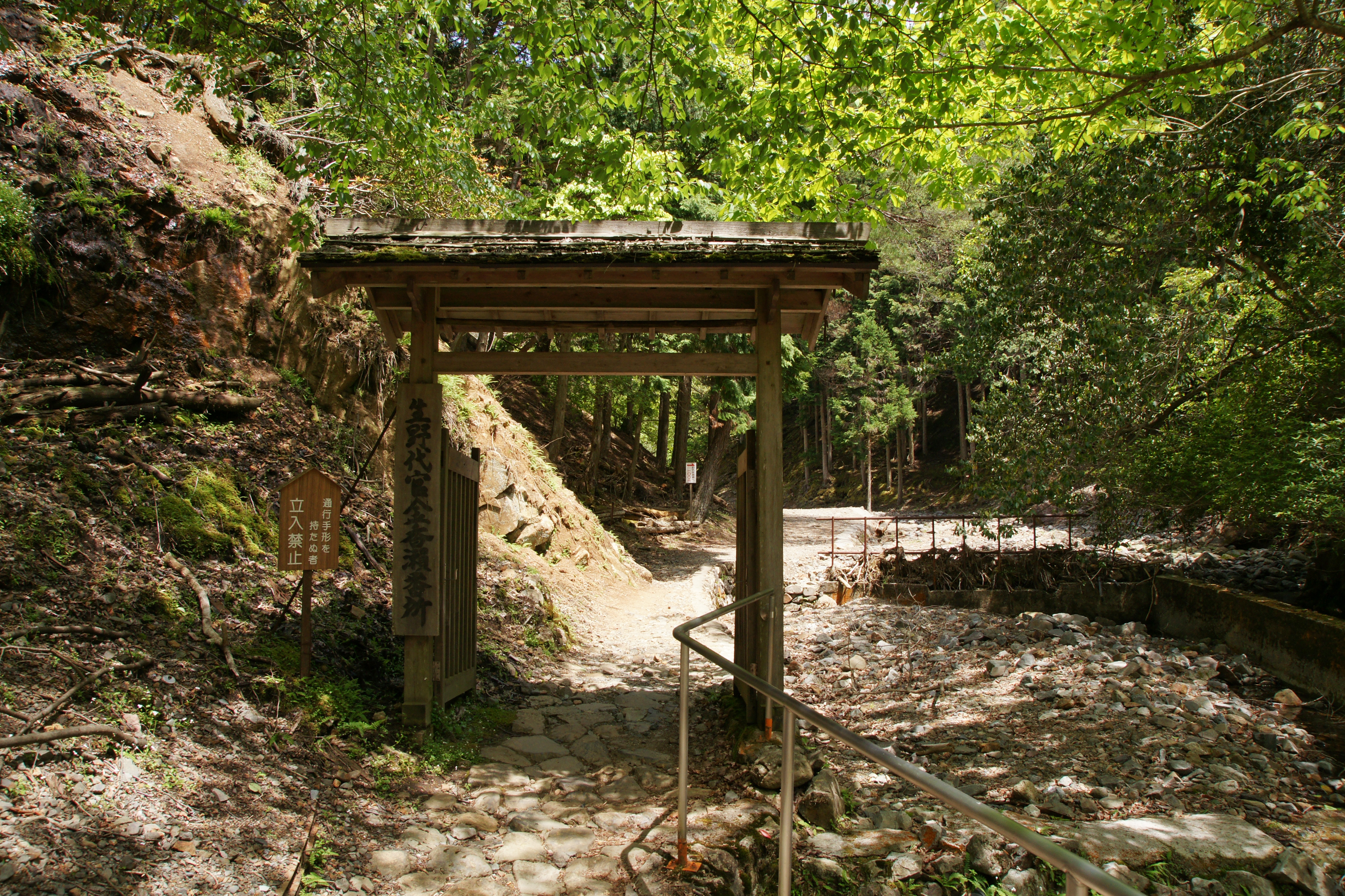 Ikuno Ginzan Silver Mine in Ikuno, Asago, Hyogo prefecture, Japan.